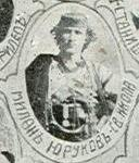 Portrait of SMAC member general Milan Yurukov from Sveti Nikola